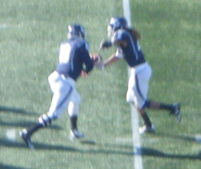 Quarterback Zach Frazer hands off to running back Andre Dixon in the second quarter of the en:2010 Bowl.